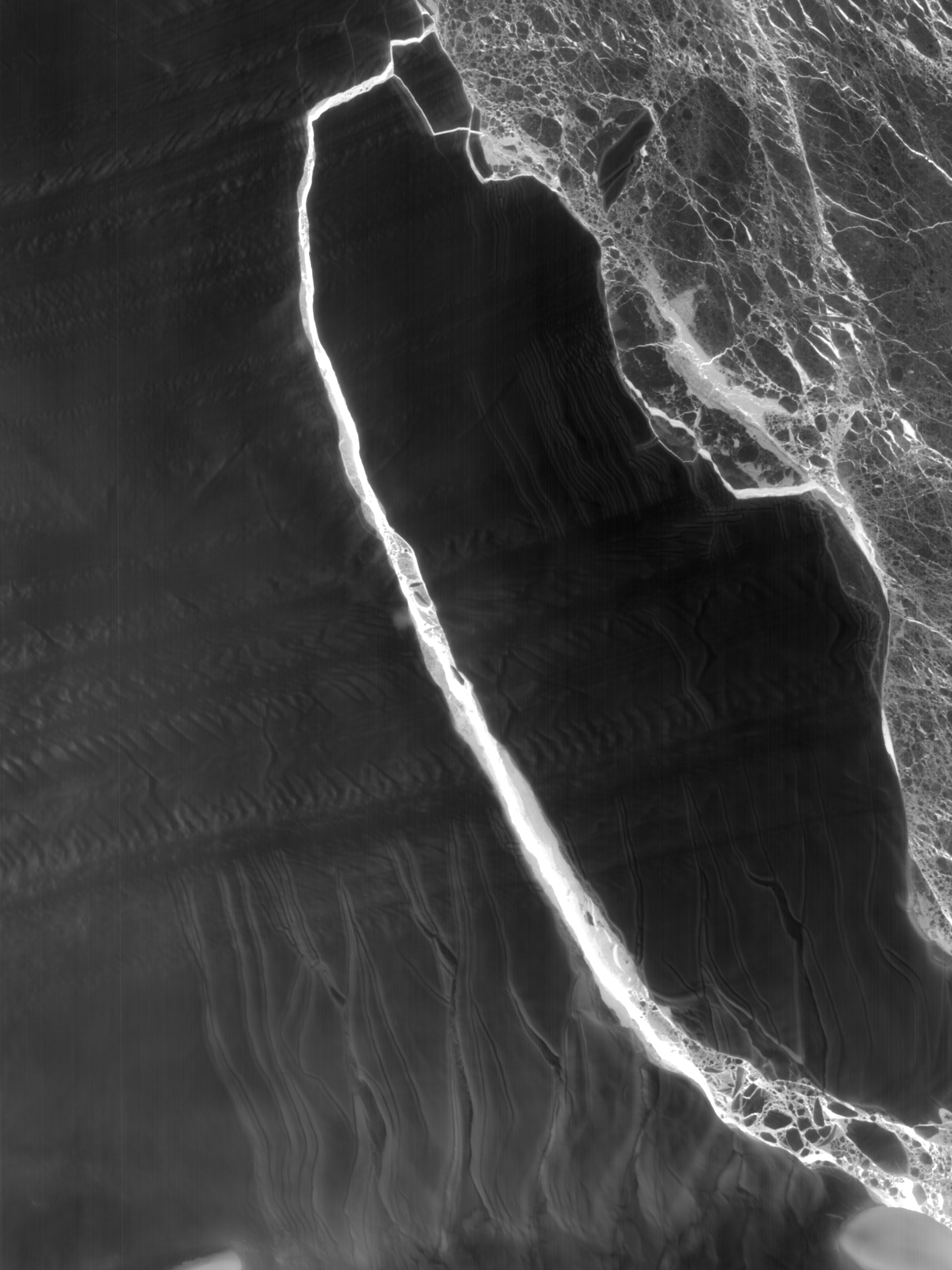 The fractured berg and shelf are visible in these images, acquired on July 21, 2017, by the Thermal Infrared Sensor (TIRS) on the Landsat 8 satellite. The false-color view shows the relative warmth or coolness across the region. White indicates where the ice or water surface is warmest, most notably in the widening strip of mélange between the main iceberg and the remaining ice shelf. Dark grays and blacks are the coldest areas of ice.